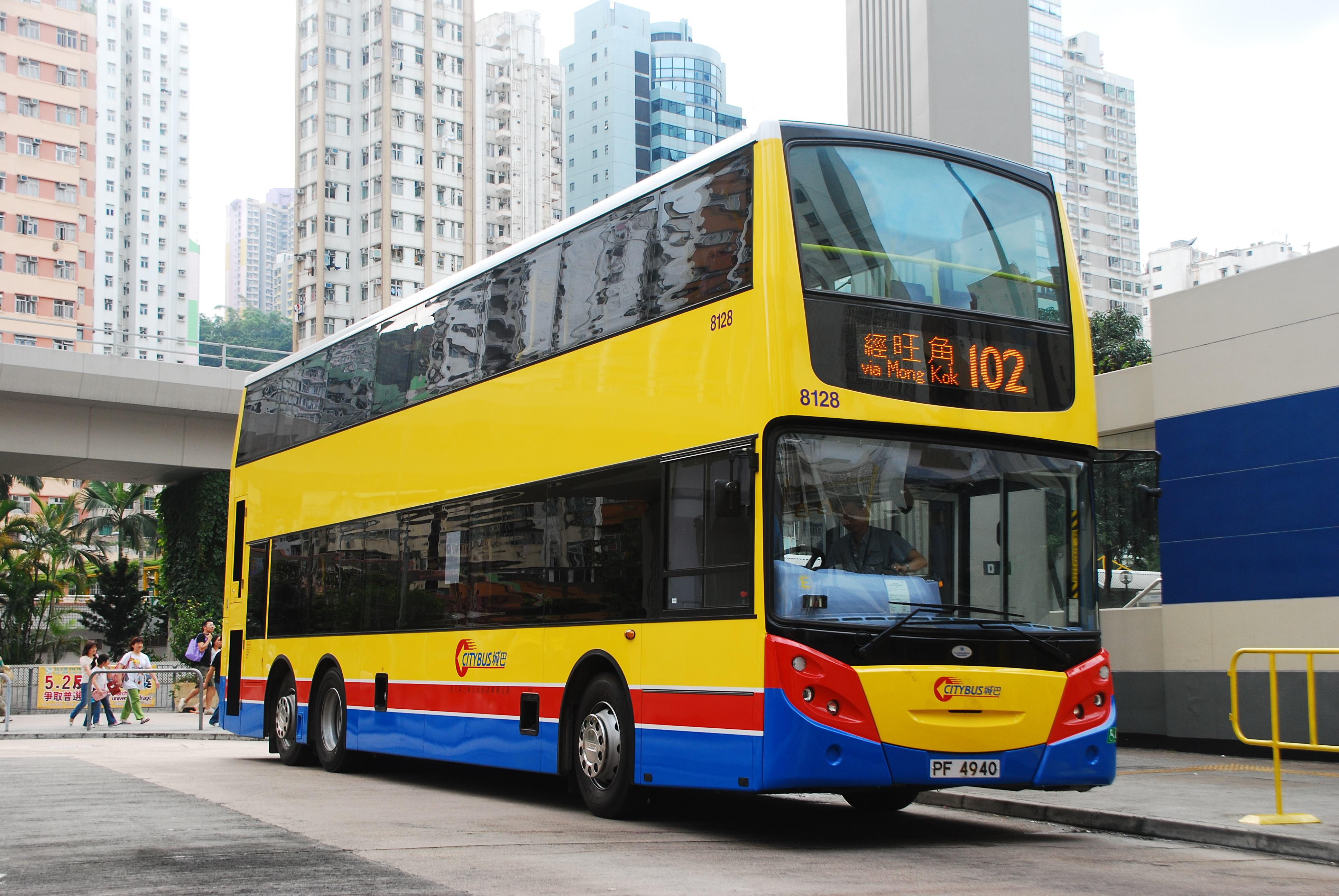 it was taken on 9/5/2010